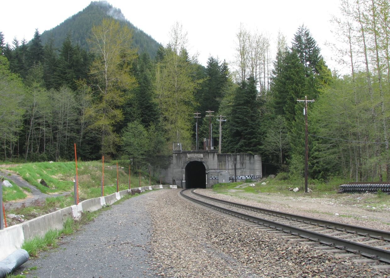 West Portal, Cascade Tunnel, Scenic, WA, United States